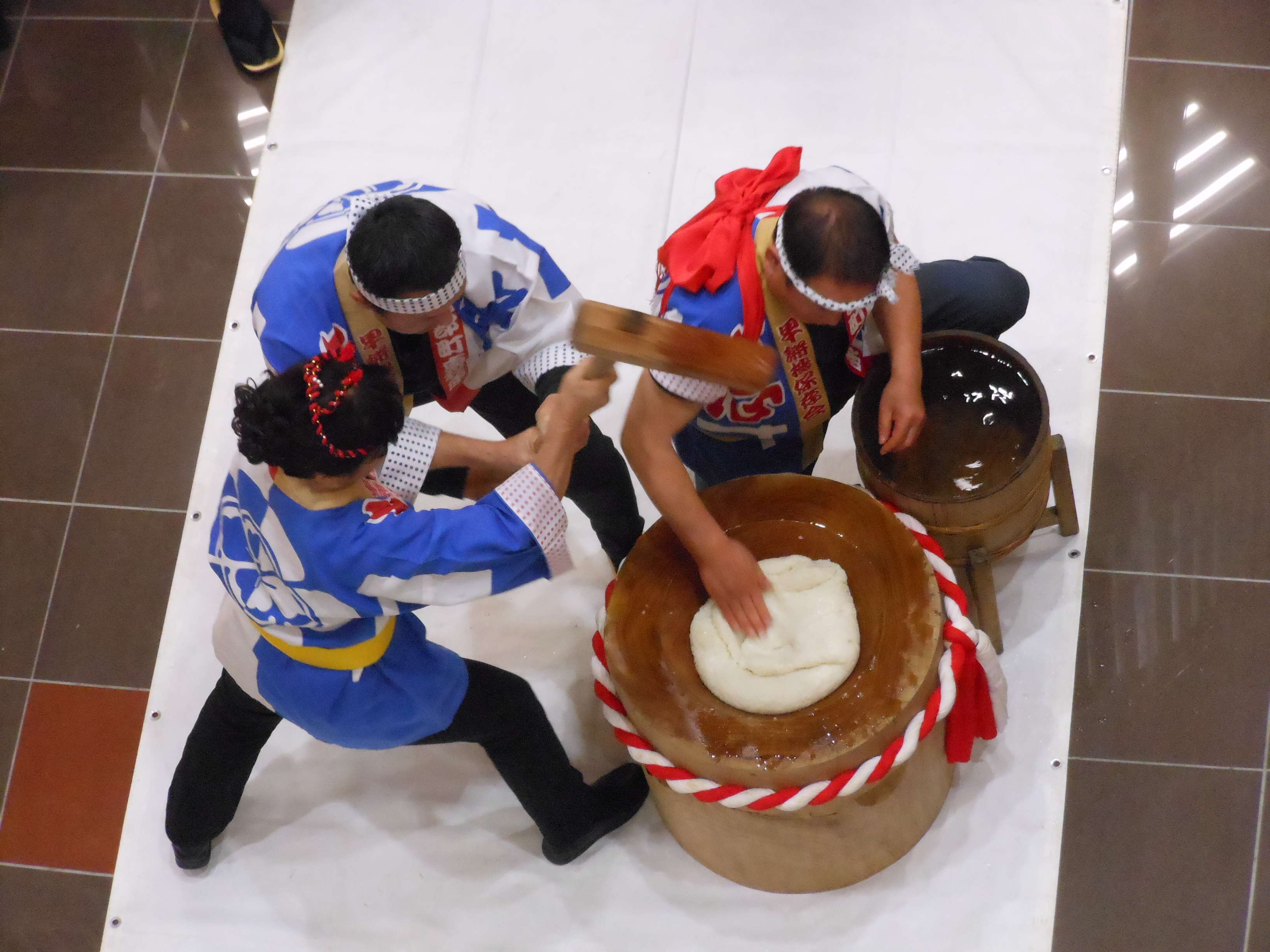 This is a scene in Erihara Hayamochitsuki or high speed pounding mochi of Erihara at AEON TOWN Ise-Lalapark.